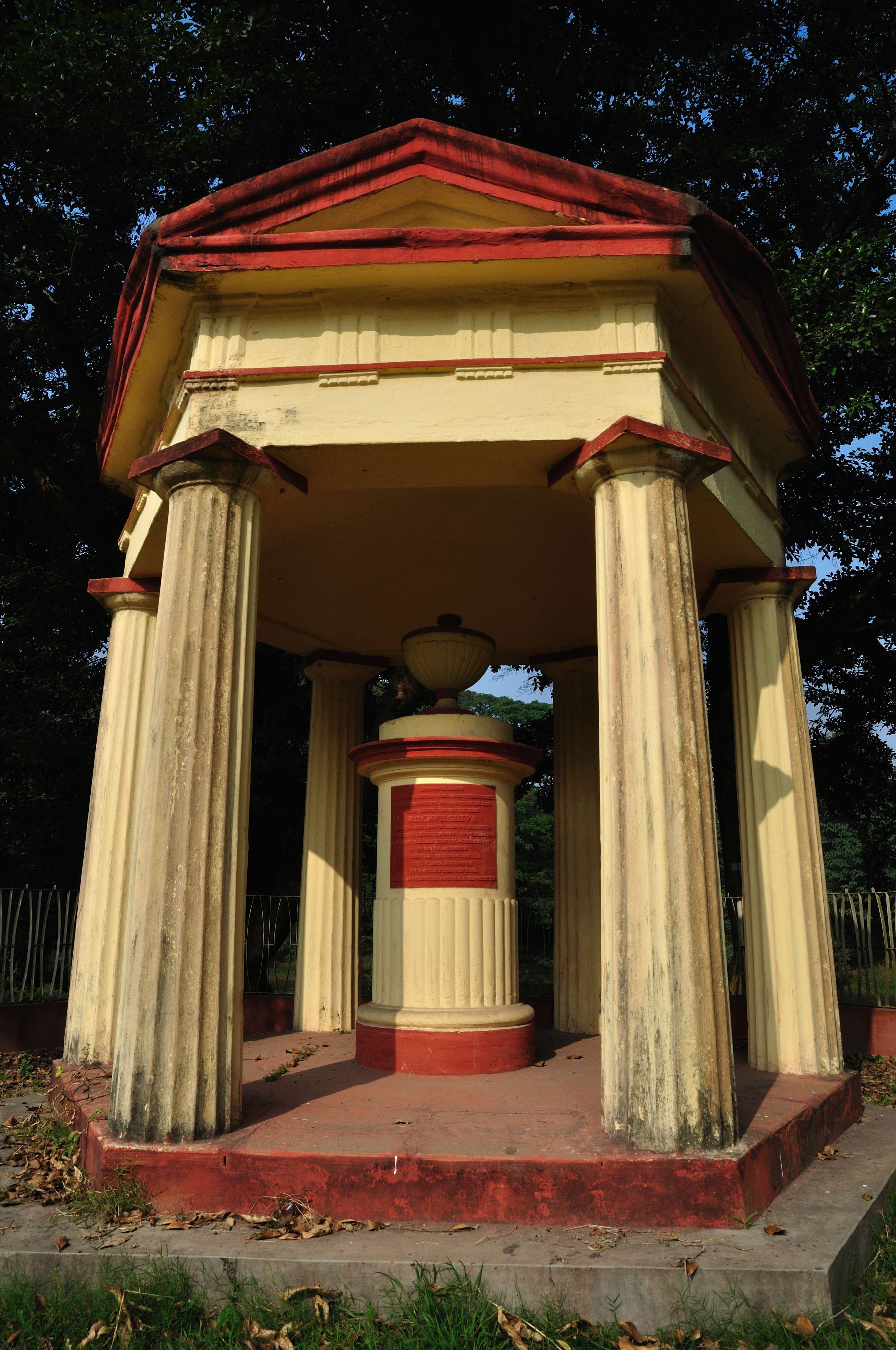 Roxburgh monument. The botanical garden at Howrah, was known as ‘East India Company’s Garden’ or the ‘Company Bagan’ or ‘Calcutta Garden’ and later as the ‘Royal Botanic Garden’ which after independence was renamed as the ‘Indian Botanic Garden’ in 1950. It came under the management of the Botanical Survey of India on January 1, 1963. From June 25, 2009 it is renamed as ‘Acharya Jagadish Chandra Bose Indian Botanic Garden’.